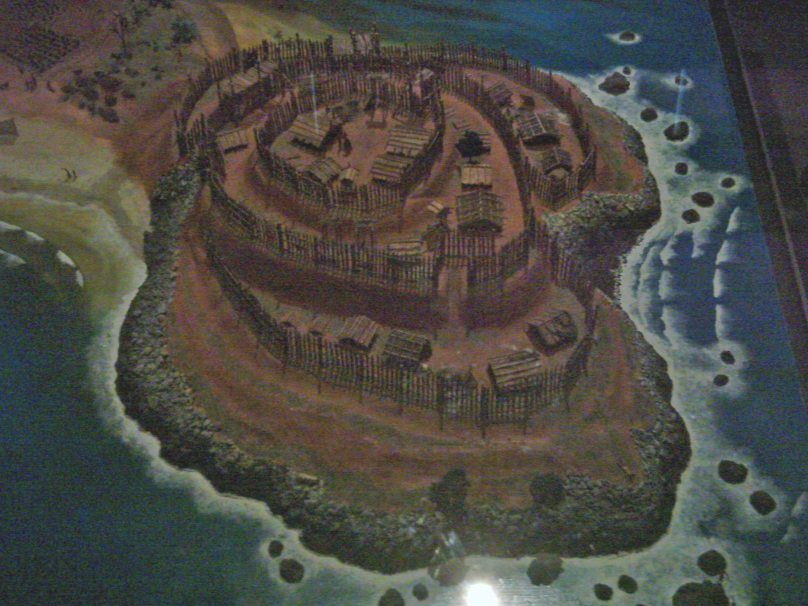 Model of a typical Pā built by Māori on headlands (for defense). Photo taken in the Auckland War Memorial Museum, New Zealand.